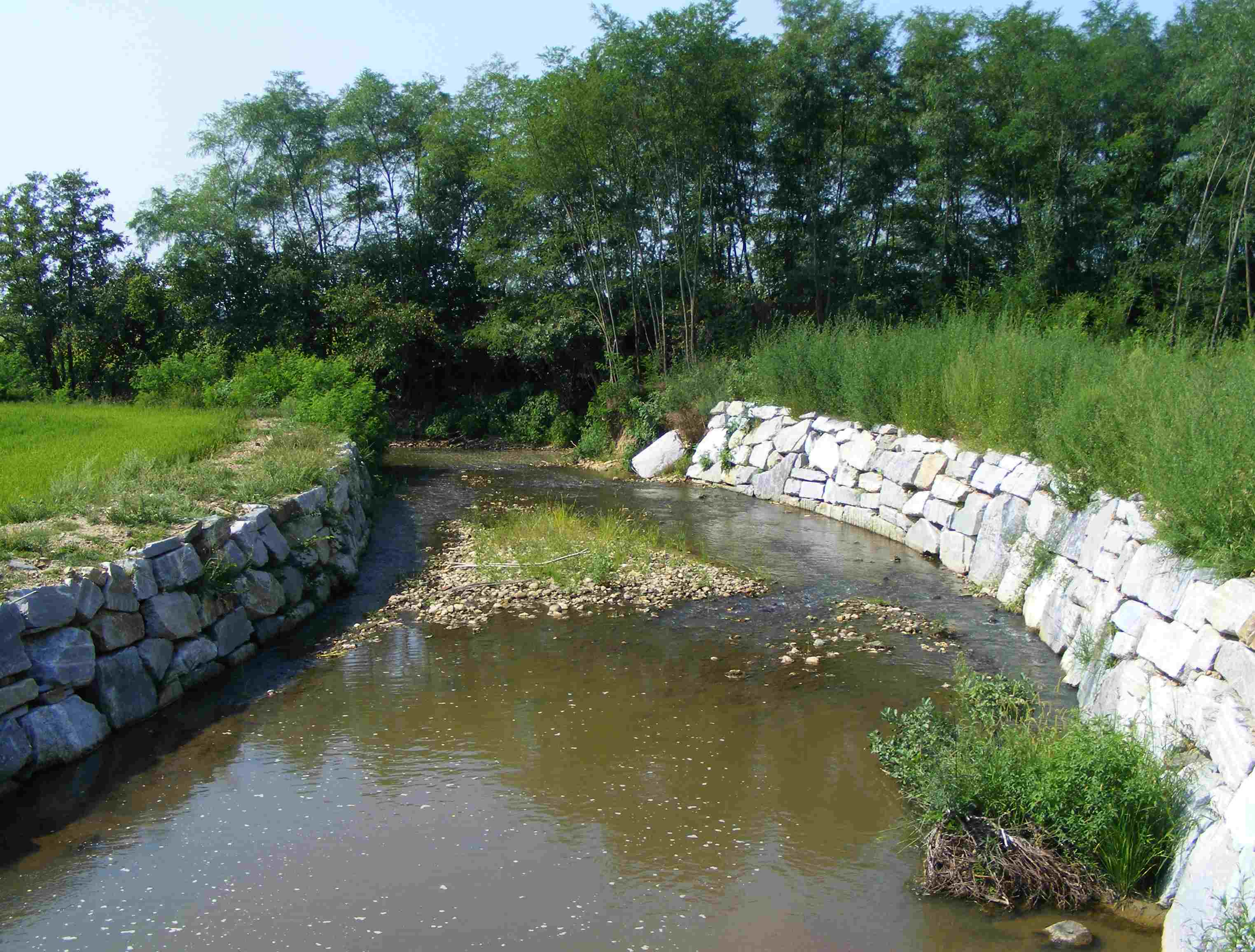 Guarabione creek near Buronzo (VC, Italy)